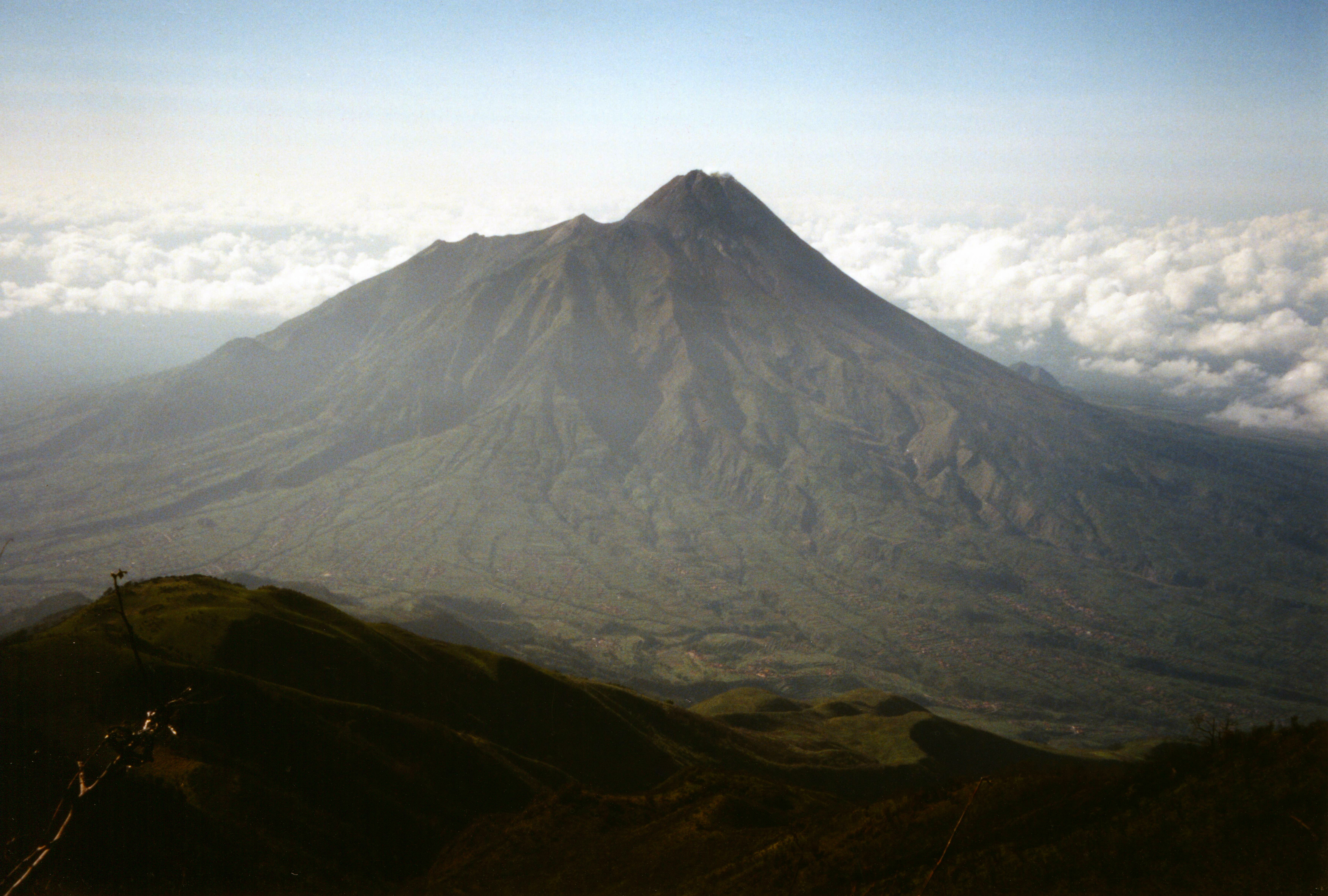 North face of Mount Merapi viewed from Mount Merbabu (3,142m), January 1998